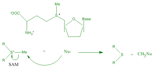 Acetyl Chloine